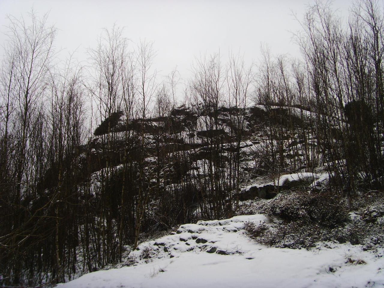 A hillfort in Backa on Hisingen, Gothenburg, Sweden.